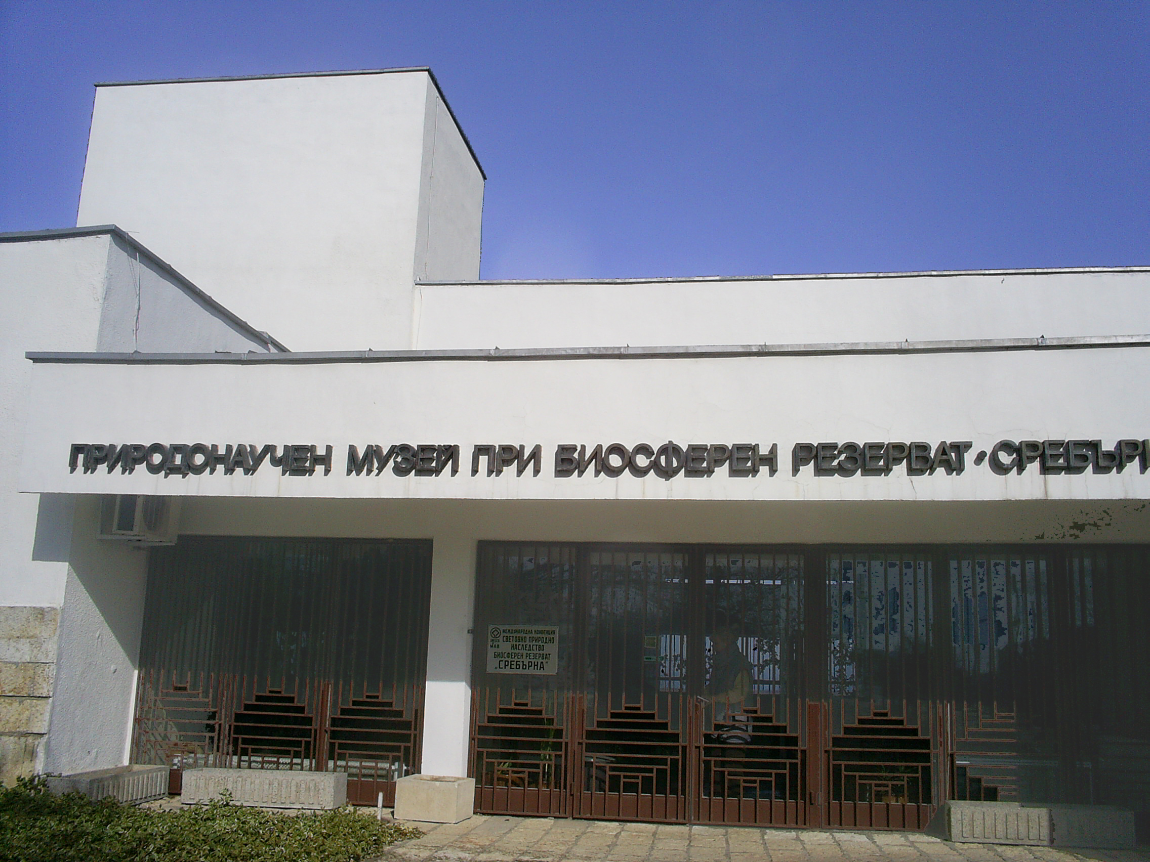 The museum of natural history in Sreburna reserve, Bulgaria